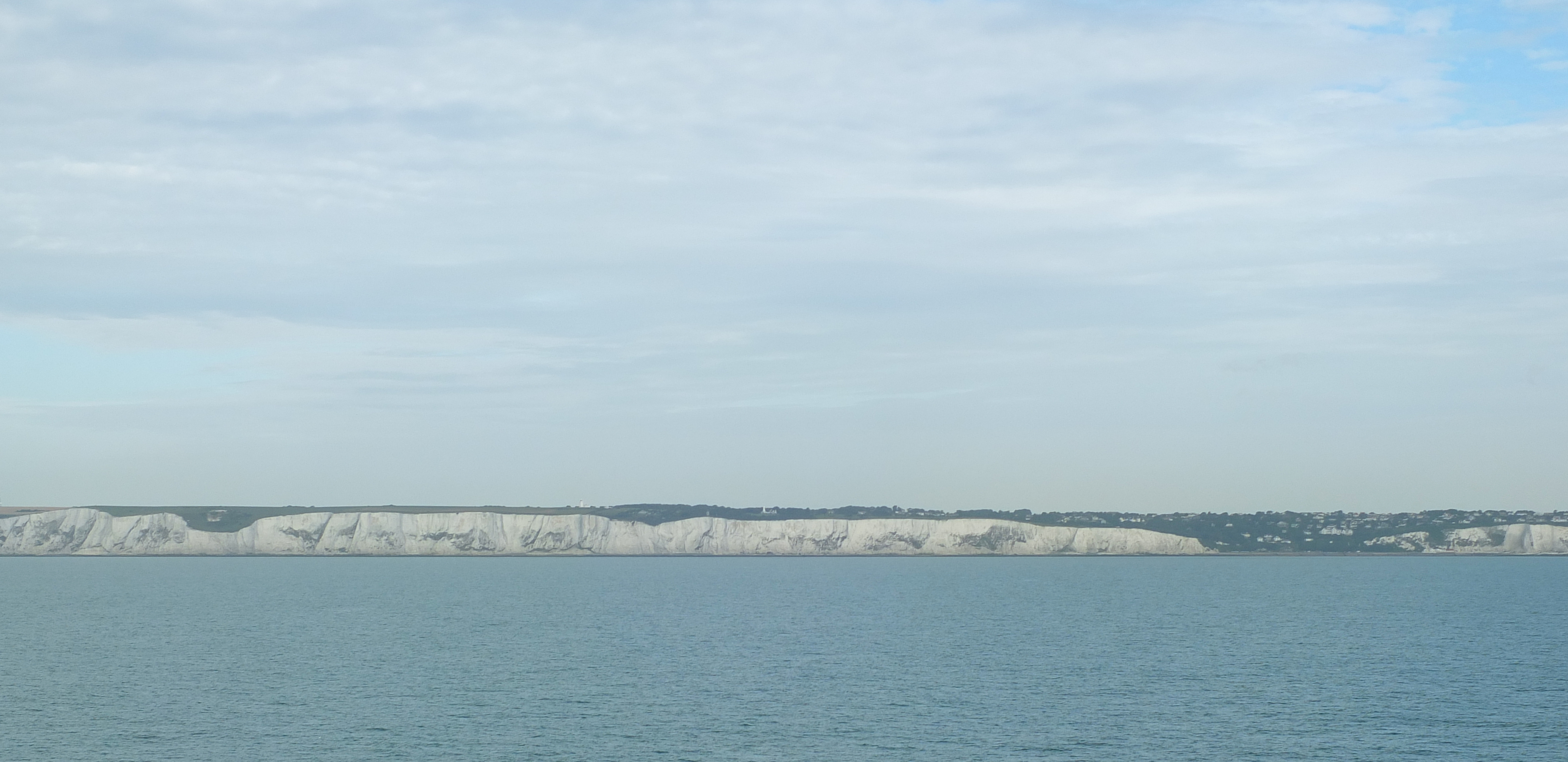 The White Cliffs of Dover at the approach of the Port of Dover.